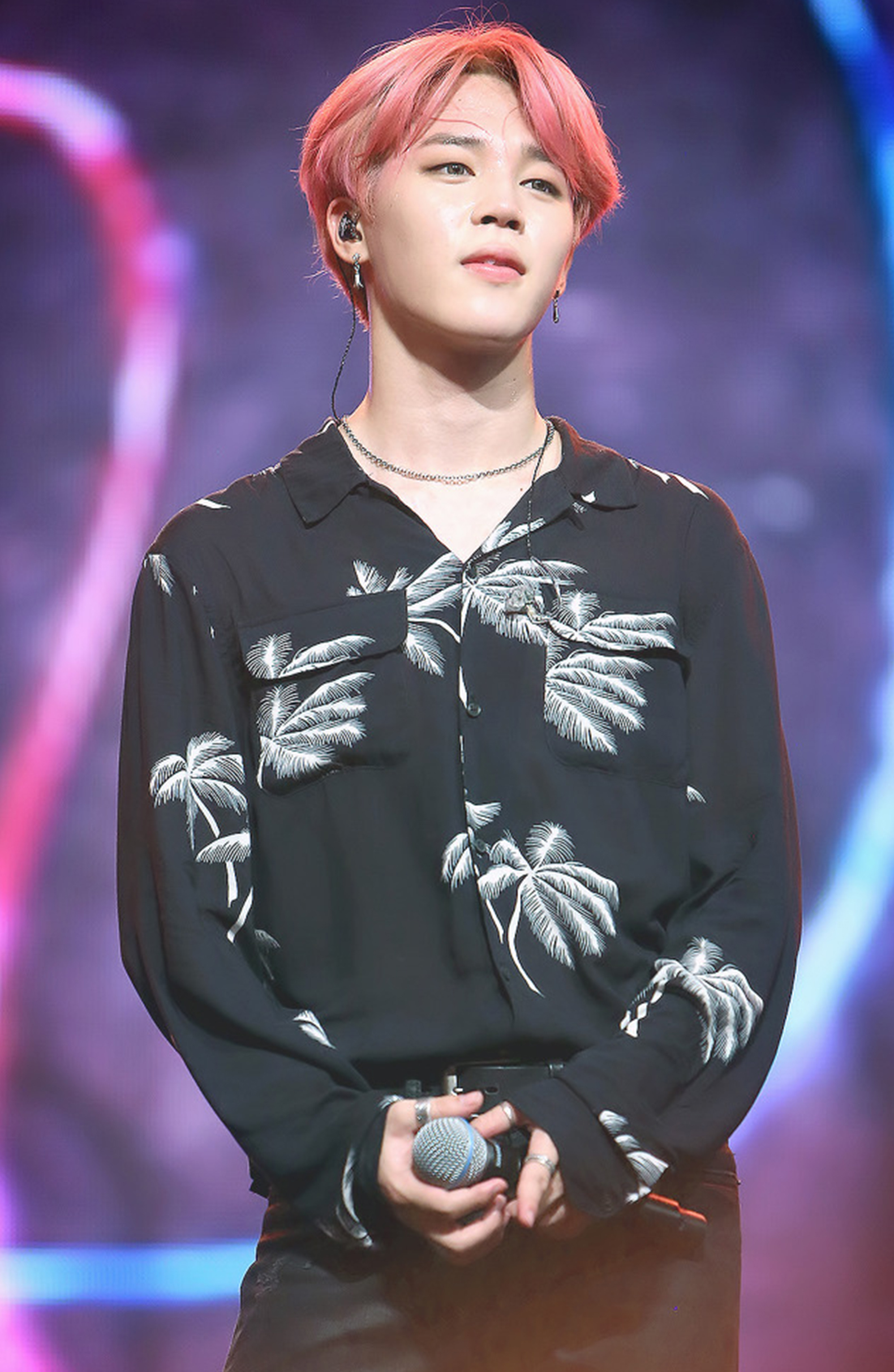 Park Ji-min at Music Bank in Singapore on August 4, 2017.